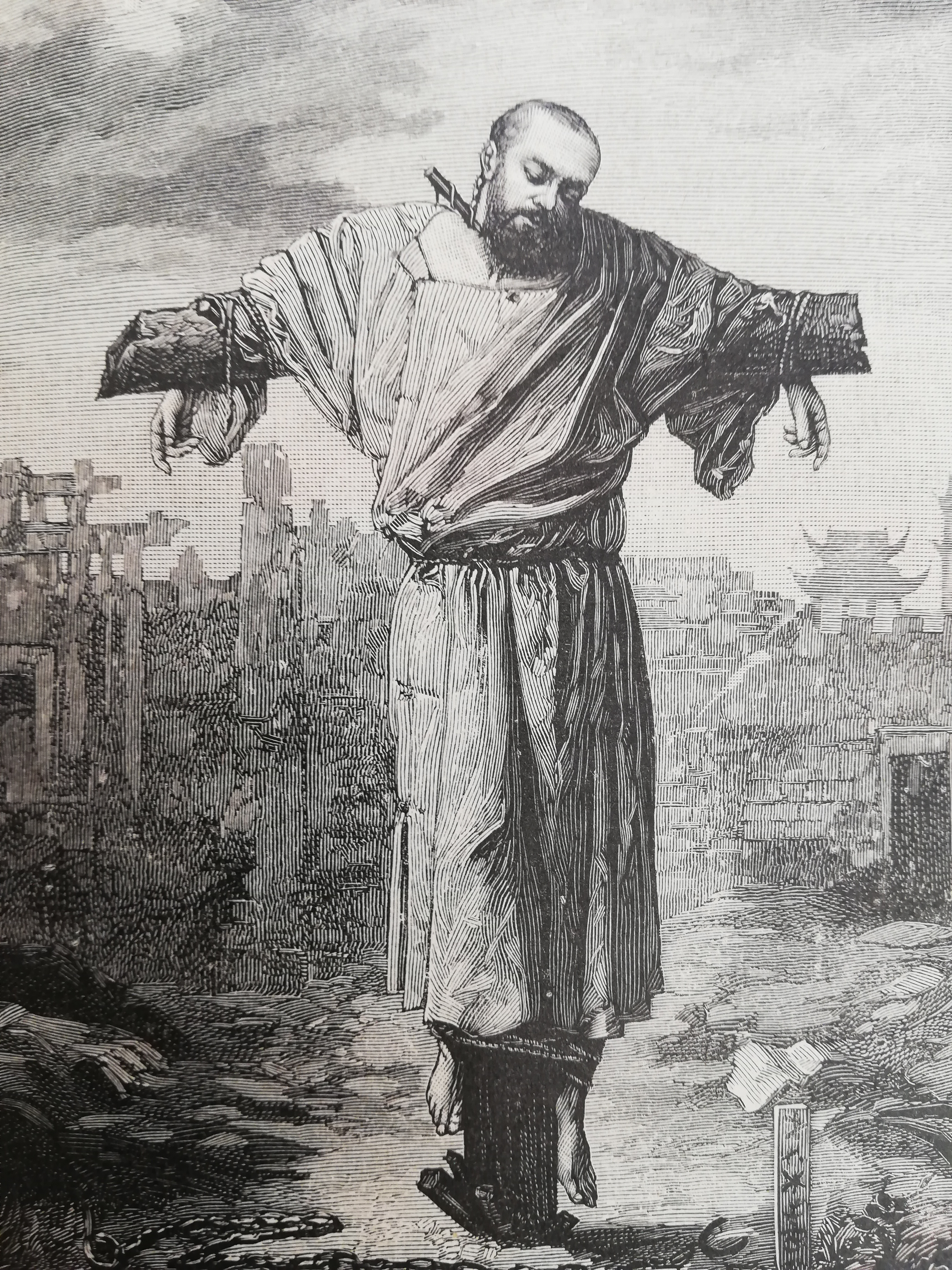 Engraving of the martyr of Saint Jean-Gabriel Perboyre, September 11, 1840 in Ou-Tchang-Fou (China)